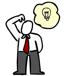 Pictofigo - Idea